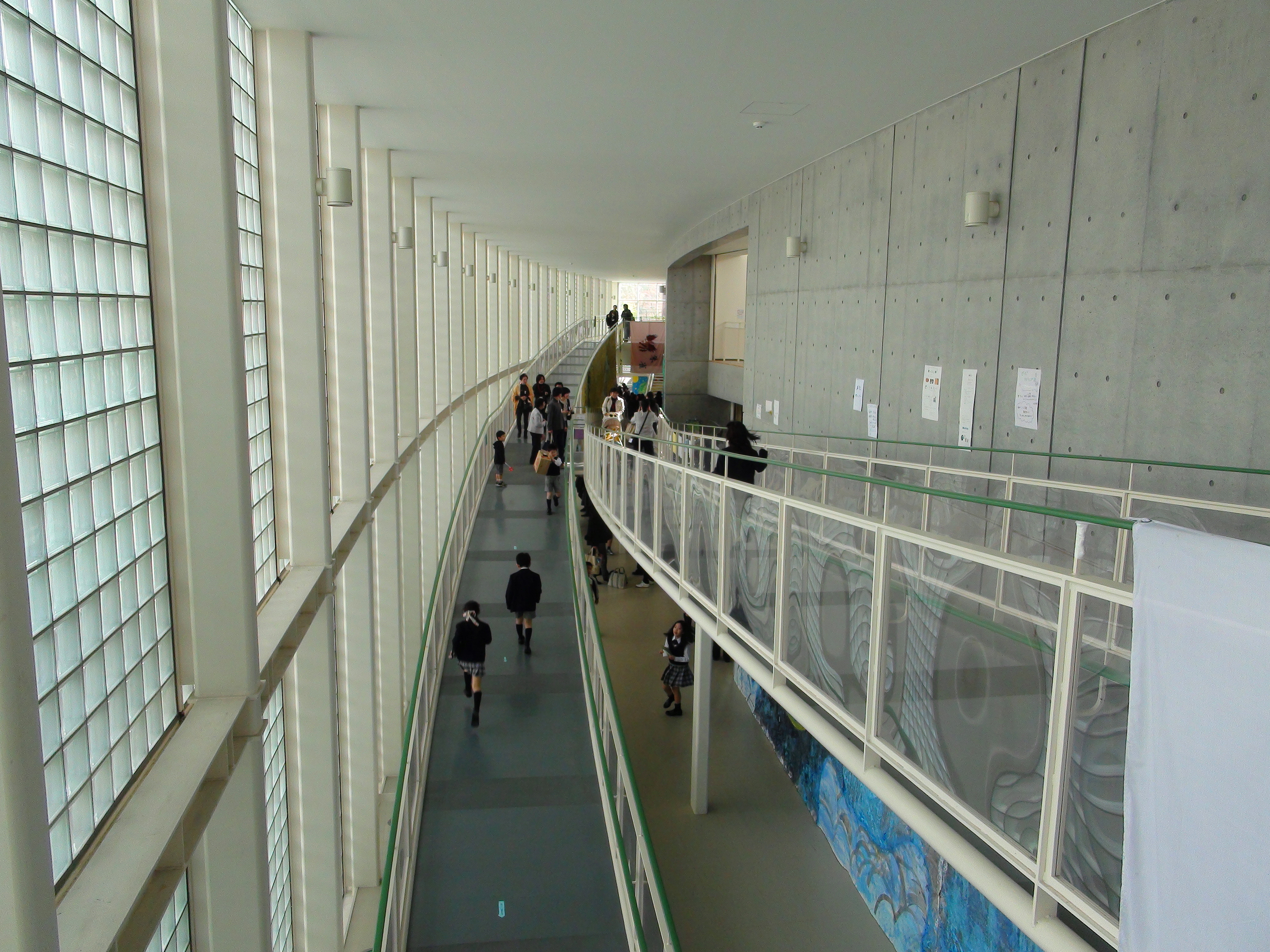 The slope of Yamanashi Gakuin Elementary School（Because it was a school festival, I can photograph it after a security check）